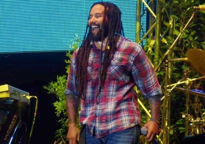 Ky-Mani Marley at Uprising reggae festival 2013 in Bratislava, SlovakiaSlovenčina: Ky-Mani Marley na reggae festivale Uprising 2013 v Bratislave